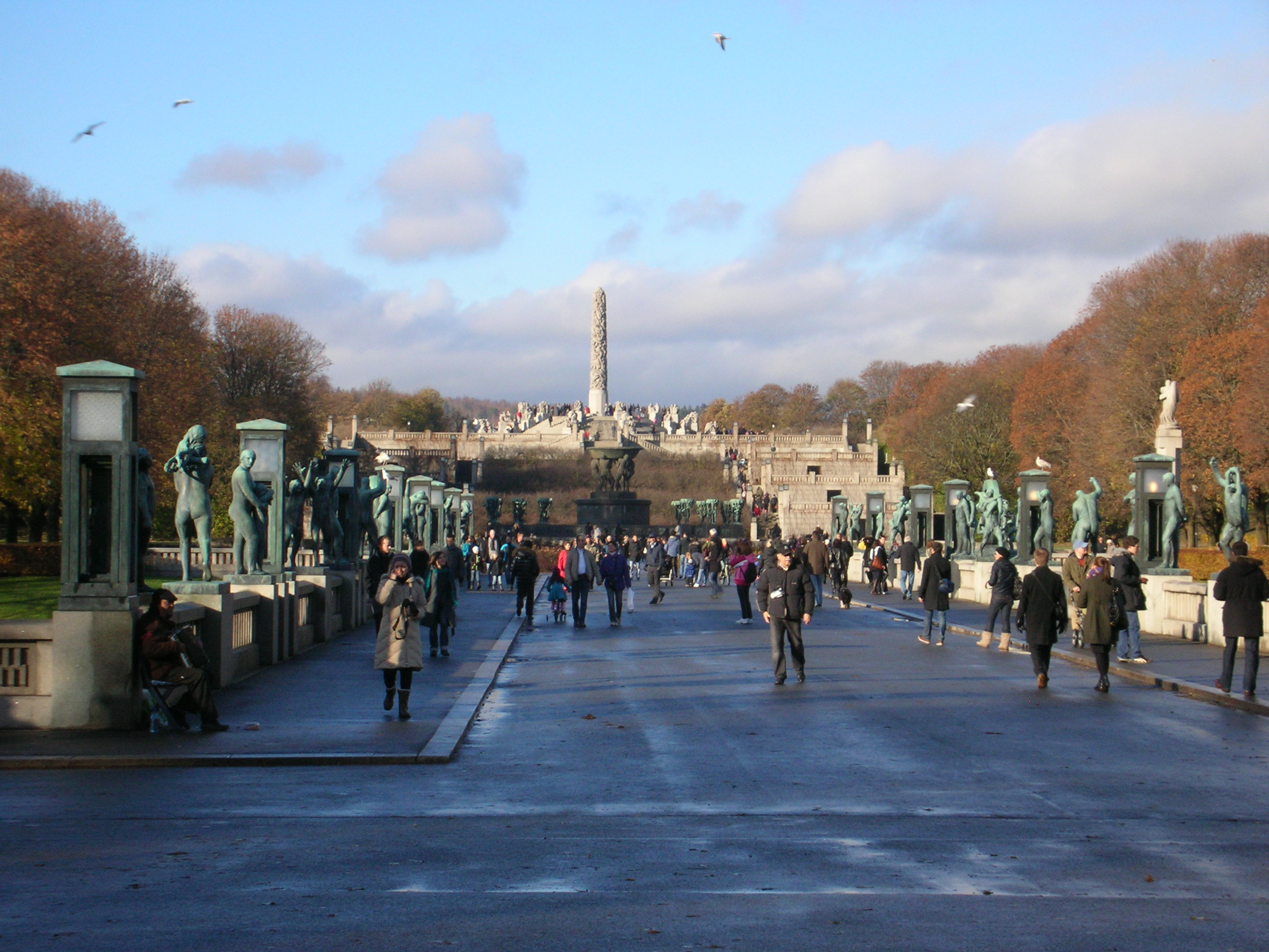 Bridge at Vigelandsparken.